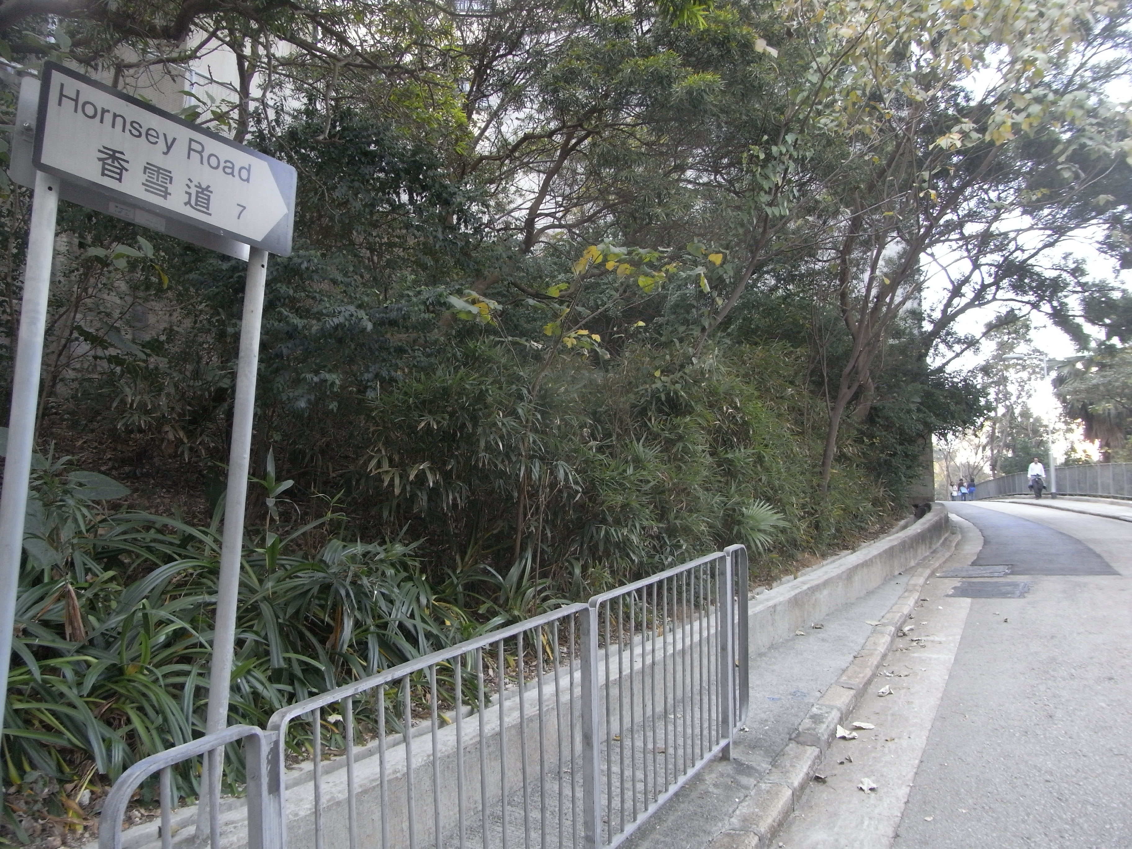 香港島香雪道